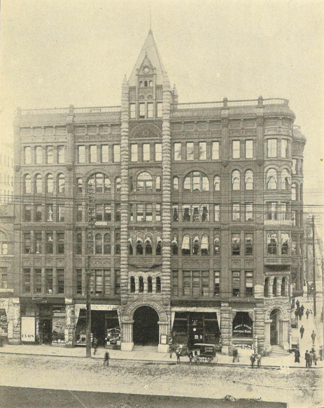 "Puget Sound National Bank. / The block is called the Pioneer, and is the property of the Yesler Estate, Inc.," from brochure Seattle and the Orient (1900). The Pioneer Block is still standing as of 2007, and is on the National Register of Historic Places (along with the nearby Iron Pergola and totem pole). In the picture, a small sign can be seen on the rightmost ground floor window saying "Puget Sound National Bank". A sign at the opposite and of the building says "FURS". A partially legible sign over the window of the second storefront from left appears to say "OPENS [?] FLATS"; there is a company name in the window, but all that can be clearly made out is that the initials are either "S.L." or "S.I." Inscribed over the arched entryway is "Pioneer Building".